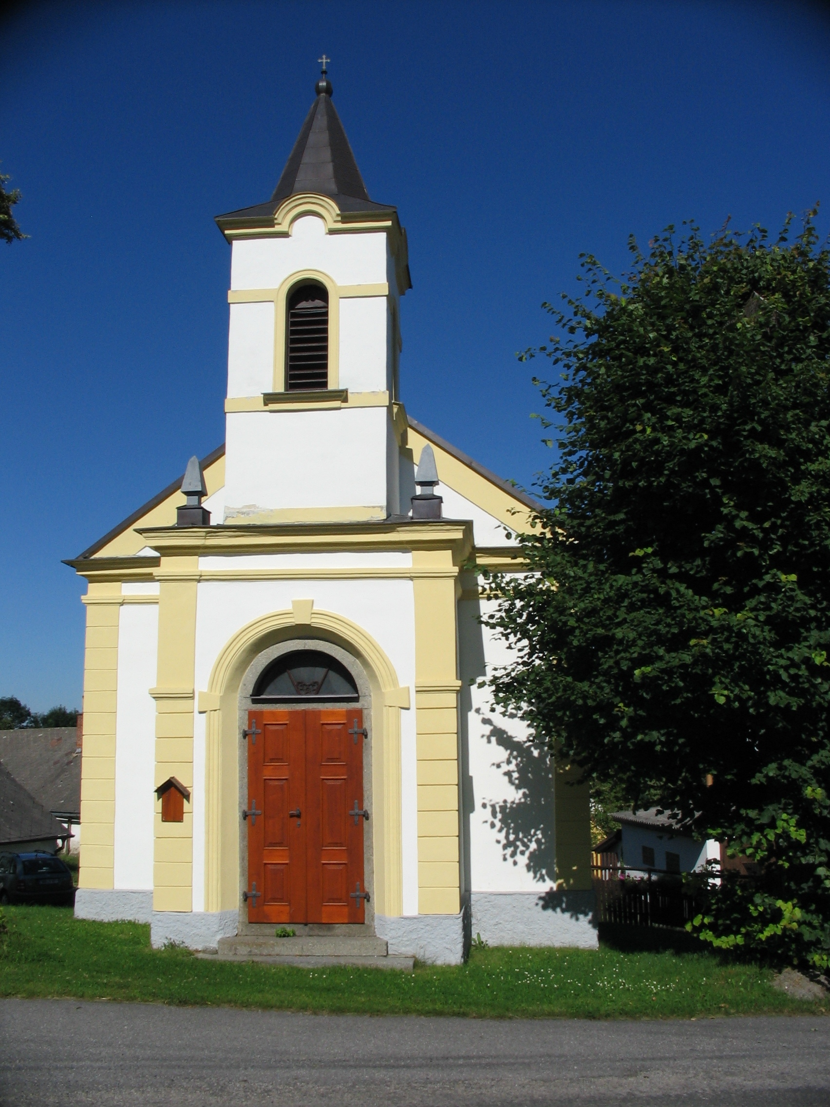 Chapel in Nová Ves, Strakonice District, Czech Republic